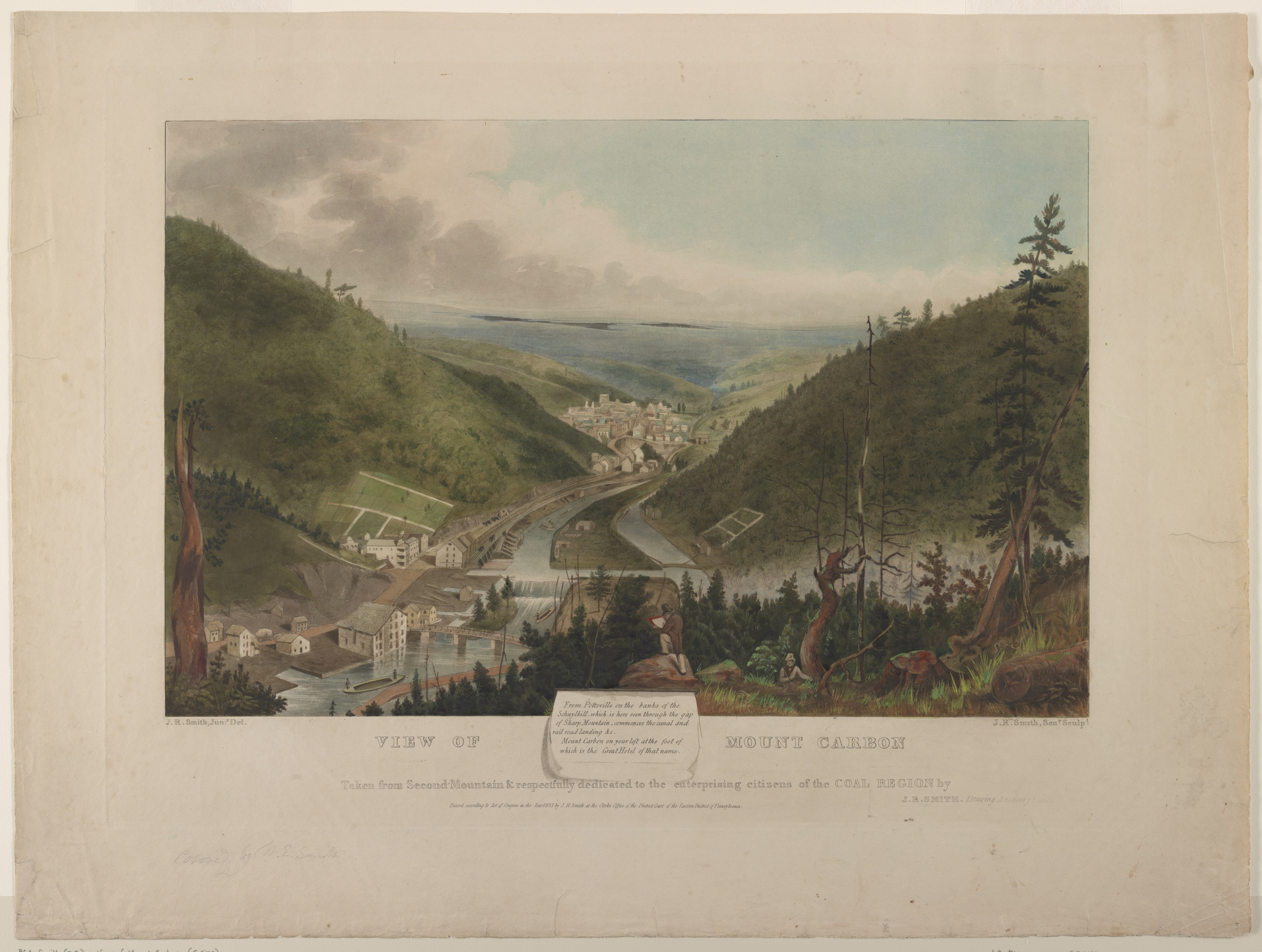 Title: View of Mount Carbon / J.R. Smith, Junr. Del., J.R. Smith, Senr Sculpt. Abstract/medium: 1 print : aquatint, hand-colored ; 37.7 x 55 cm (plate), 45.1 x 60.4 cm (sheet)